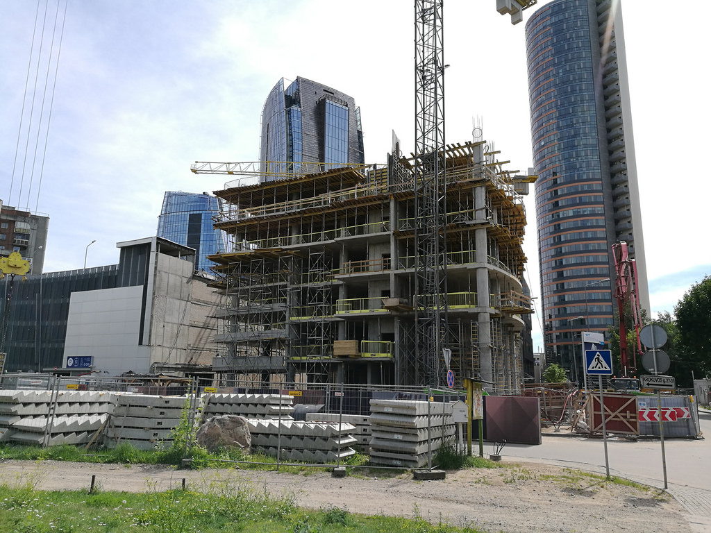 Naujasis miesto centras (new city center) in Šnipiškės district of Vilnius, Lithuania